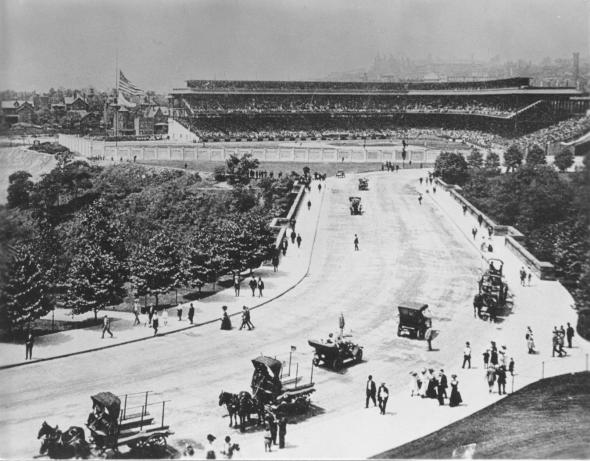 Forbes Field in Pittsburgh, Pennsylvania shortly after its opening, taken July 5, 1909.